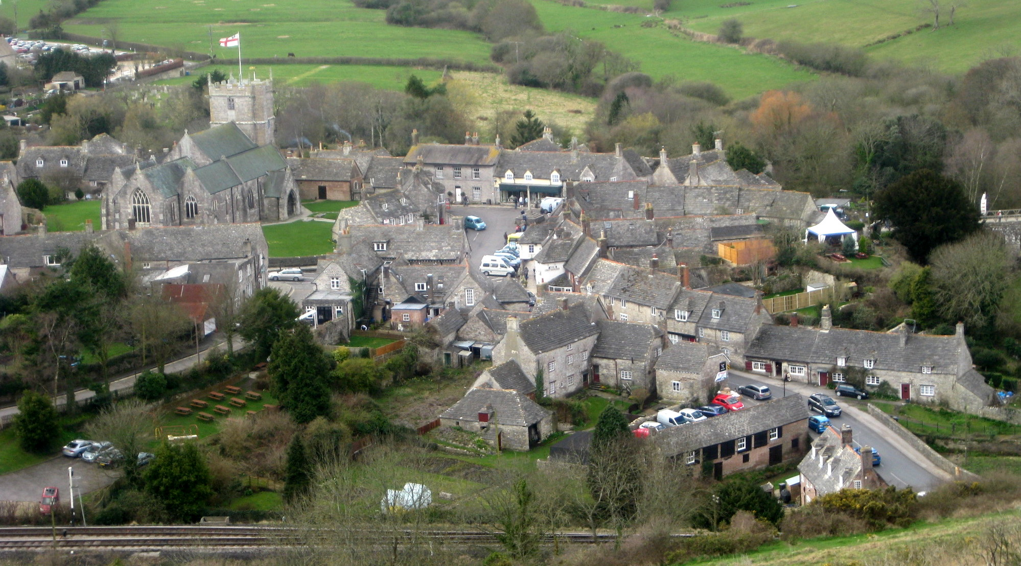 Corfe Castle village, Dorset